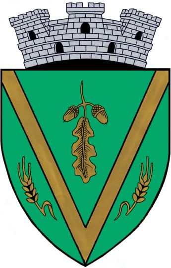 Coat of arms of Negru Vodă city from Constanța, Romania.